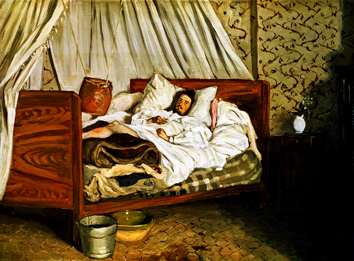 The Improvised Ambulance, The painter Monet wounded at Chailly-en-Biere after his accident